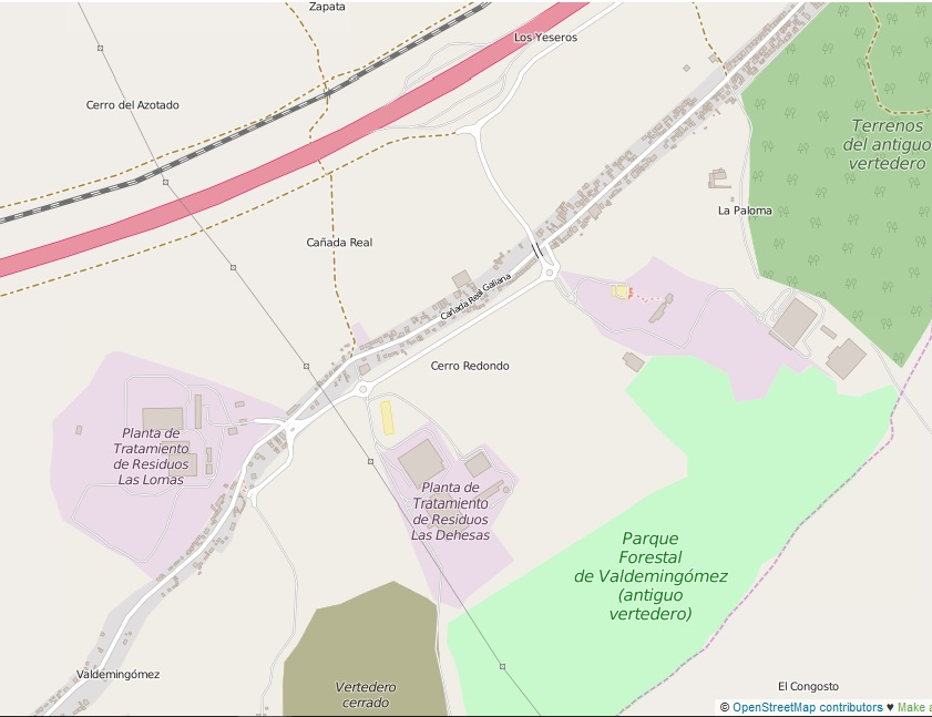 Excerpt of map depicting Cañada Real Galiana, Valdemingómez district, near the Valdemingómez waste and recycling facilities. Long grey strip along Cañada Real Galiana roadway denotes the 16 kilometre-long, 75 metre-wide shantytown; square and rectangular outlines represent dimensions of surveyed buildings within the settlement. The narrow width of the settlement is due to the dimensions of the legally protected transhumance pathway on which it is situated.